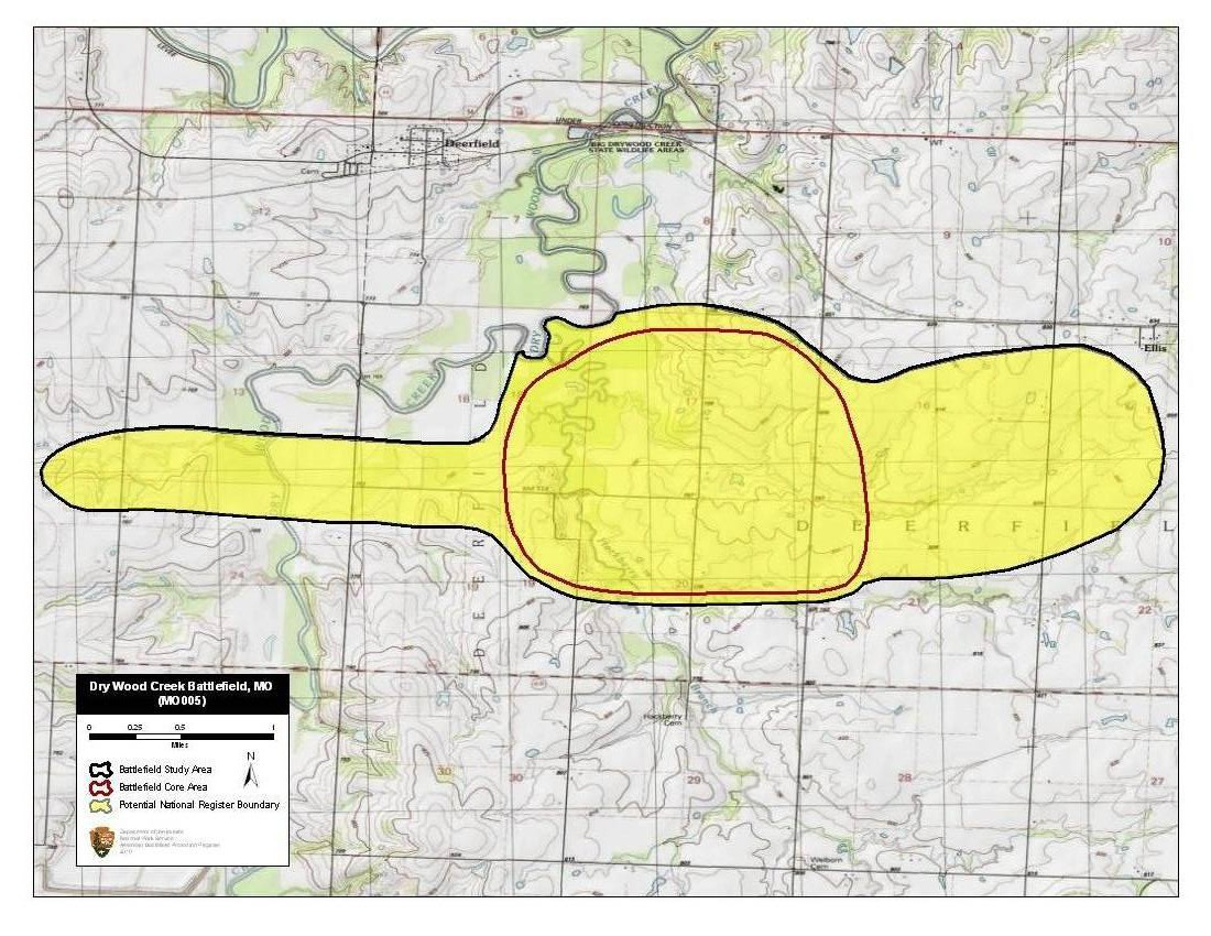 Map of battlefield core and study areas. The 1993 Study Area for Dry Wood Creek originally included two separated parts. Based on new research, the ABPP determined that no fighting associated with this battle occurred in the eastern segment. Thus, that portion of the Study Area was removed. The ABPP also adjusted the Study Area to take in the breadth of the creek, a defining feature of the battlefield. The Core Area was reduced slightly to more accurately follow topographic features.